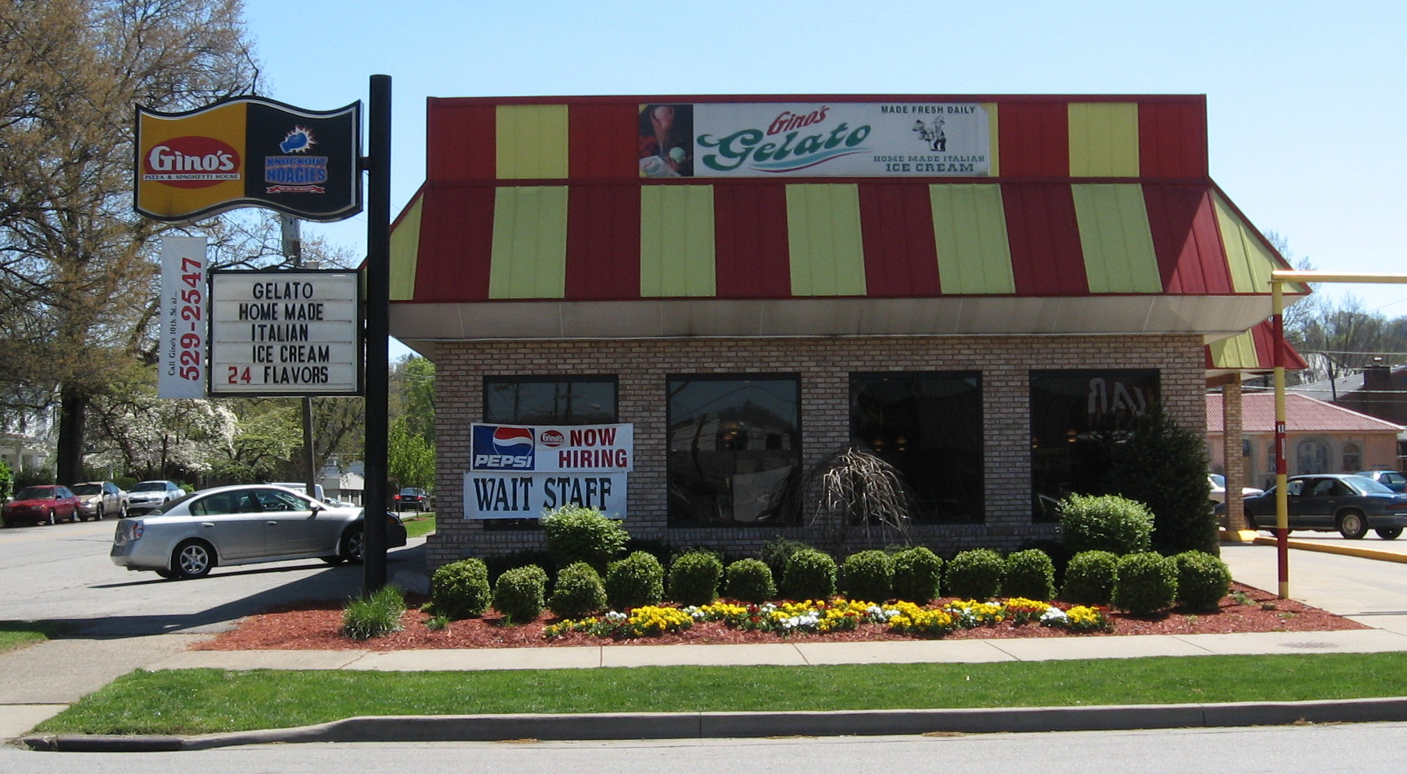 Photo of Gino's on 10th St in Huntington, WV.